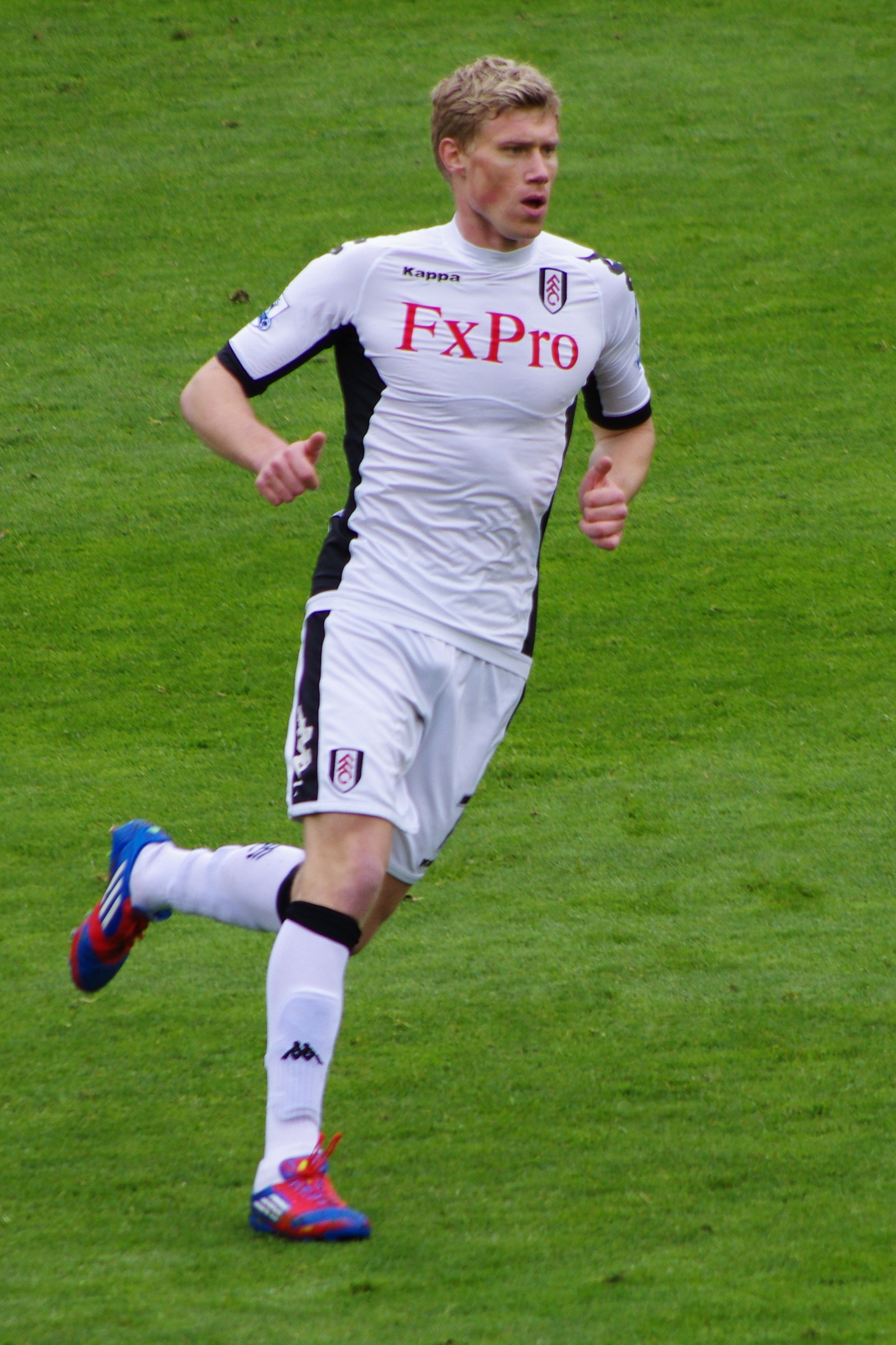 Pavel Pogrebnyak against Sunderland, 6th May 2012